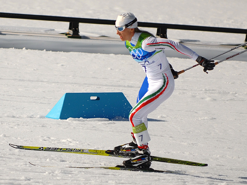 Silvia Rupil during the Ladies' 15 km Pursuit in the Vancouver 2010 Olympics.